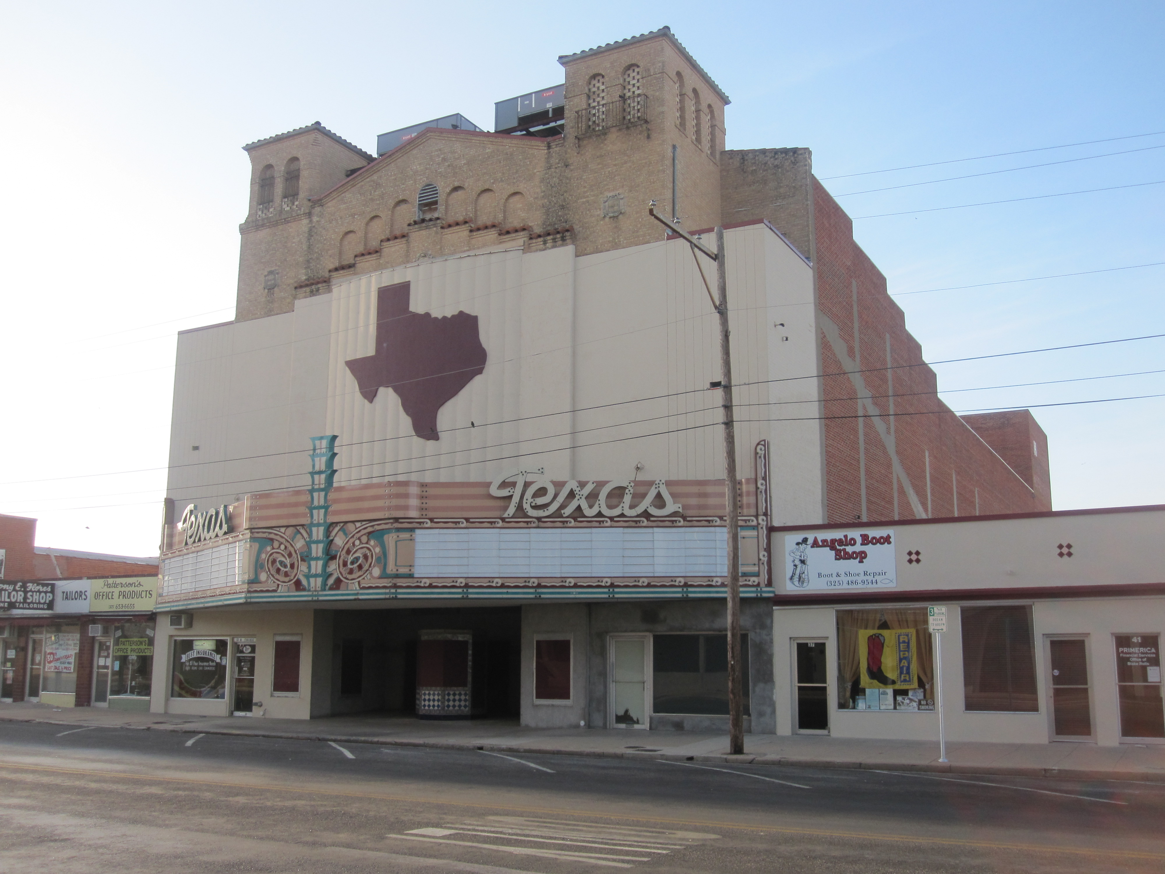 I took photo with Canon camera in San Angelo, TX.